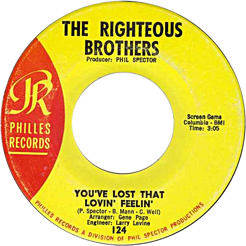 "You've Lost That Lovin' Feelin'" by The Righteous Brothers US vinyl